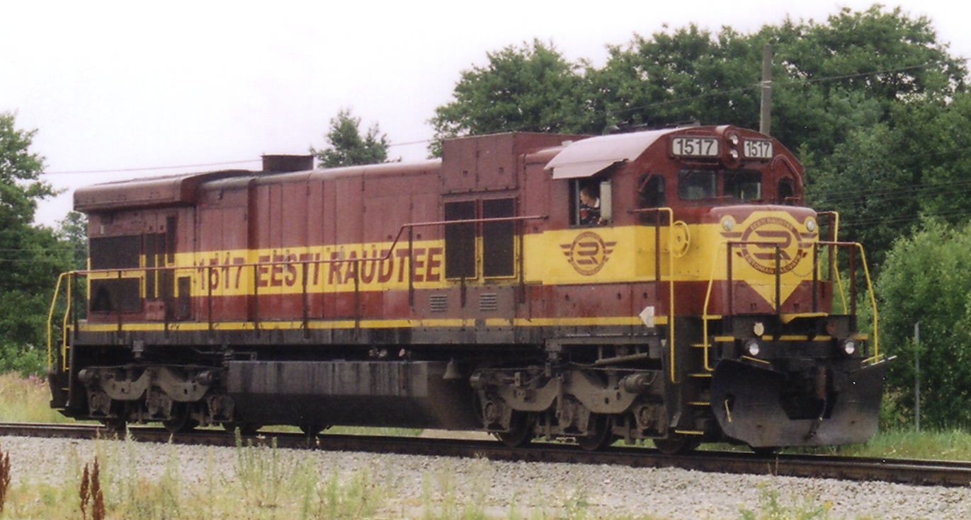 A GE C36-7 locomotive acquired second-hand by Estonian Railways and re-gauged for Russian track.